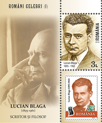 Famous Romanians, part I